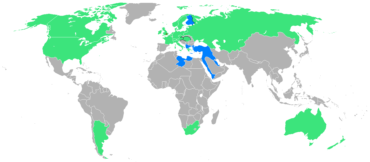 Countries which participated in the 1912 Summer Olympics, derived from blank world map and Image:1912 Summer Olympic games countries.png. Blue = Participating for the first time Green = Have previously participated. Yellow square is host city (London).